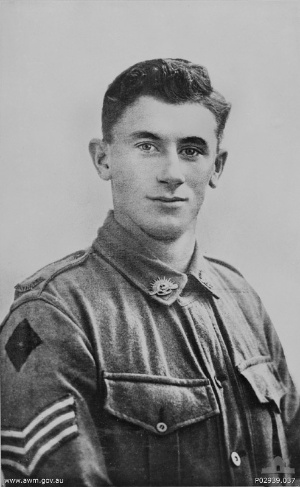 Albert David Lowerson VC (2 August 1896- 15 December 1945) ID Number: P02939.037 Physical description: Black & white Summary: c. 1916. Portrait of Sergeant (Sgt) Albert David (Alby) Lowerson VC, 21st Battalion. Sgt Lowerson was awarded the Victoria Cross for "most conspicuous bravery and tactical skill" on 1 September 1918 at Mont St. Quentin, France. Sgt Lowerson directed his men, leading them to the objective, capturing twelve machine guns and thirty prisoners. He was severely wounded in the thigh but refused to leave the front line until the prisoners had been dispersed and the post consolidated. Two days later he was evacuated for medical attention, rejoining the battalion on 17 September. On 5 October 1918, he was wounded for the fourth time and returned to Australia medically unfit. He died on 15 December 1945. (Donor R. Arman) Copyright: Copyright expired - public domain Copyright holder: Copyright Expired Related conflict: First World War, 1914-1918